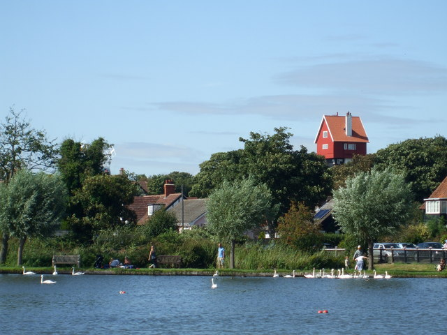 The House on Stilts A view over Thorpeness Meare and the house on stilts.